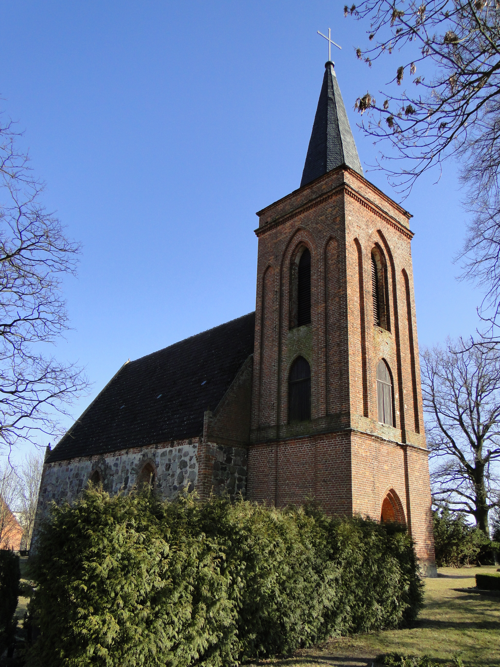 Church in Petersdorf (naer Woldegk), district Mecklenburg-Strelitz, Mecklenburg-Vorpommern, Germany